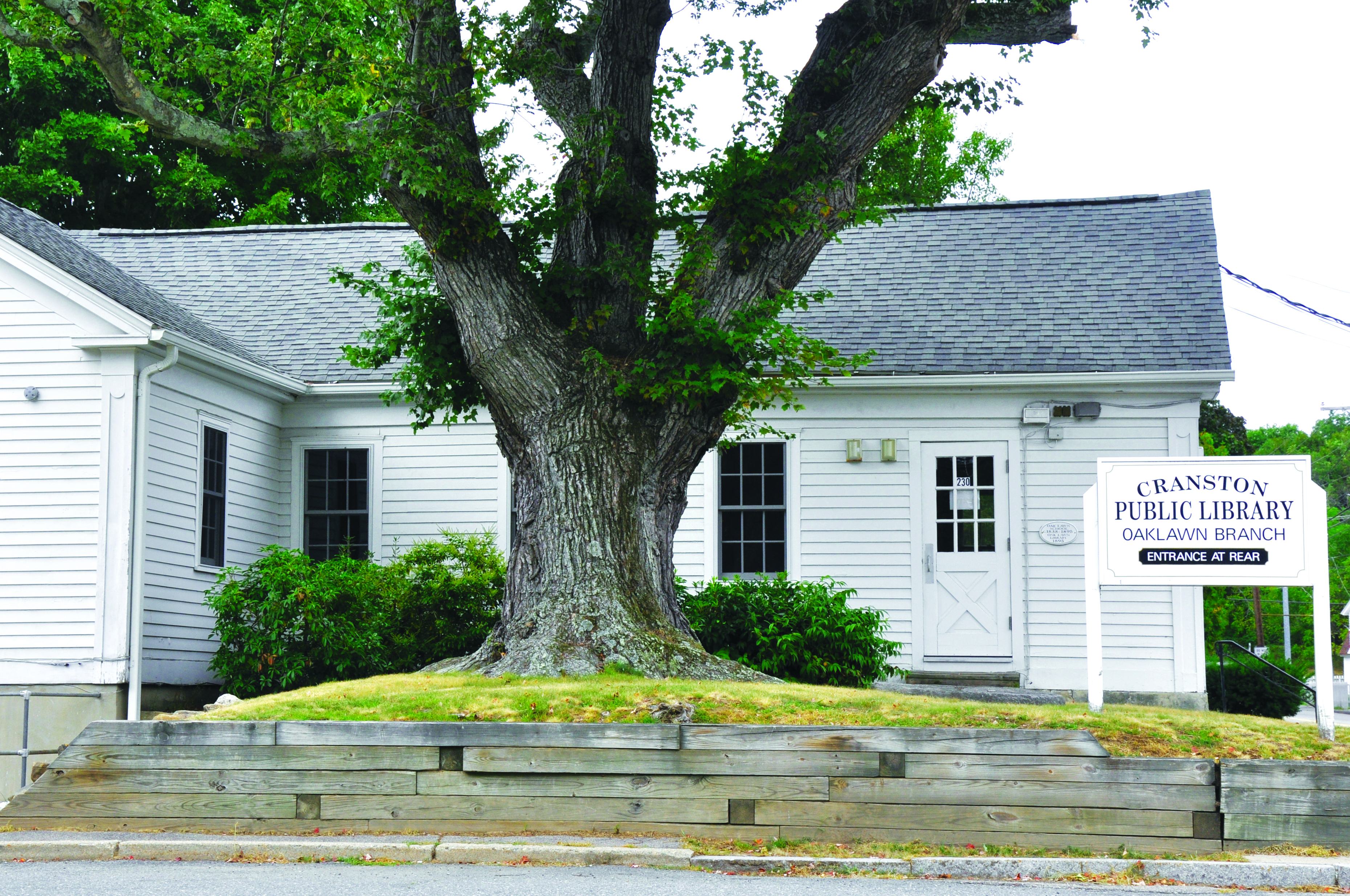 The Oak Lawn branch is located in a historical building with a rich history of having served the community as a school house as well as a library.